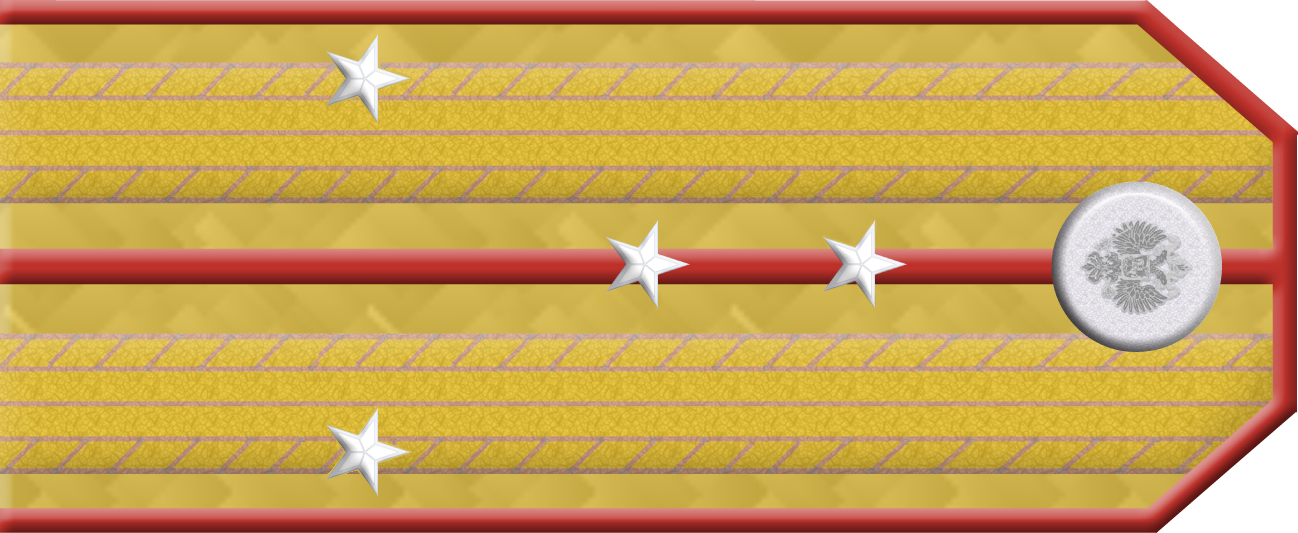 Rank insignia of the Imperial Russian Army, "Staff captain" – shoulder strap 1909-1917. Particularity: Cavalry “Staff rittmeister“, Cossack Army “Deputy/ assistant yesaul”.